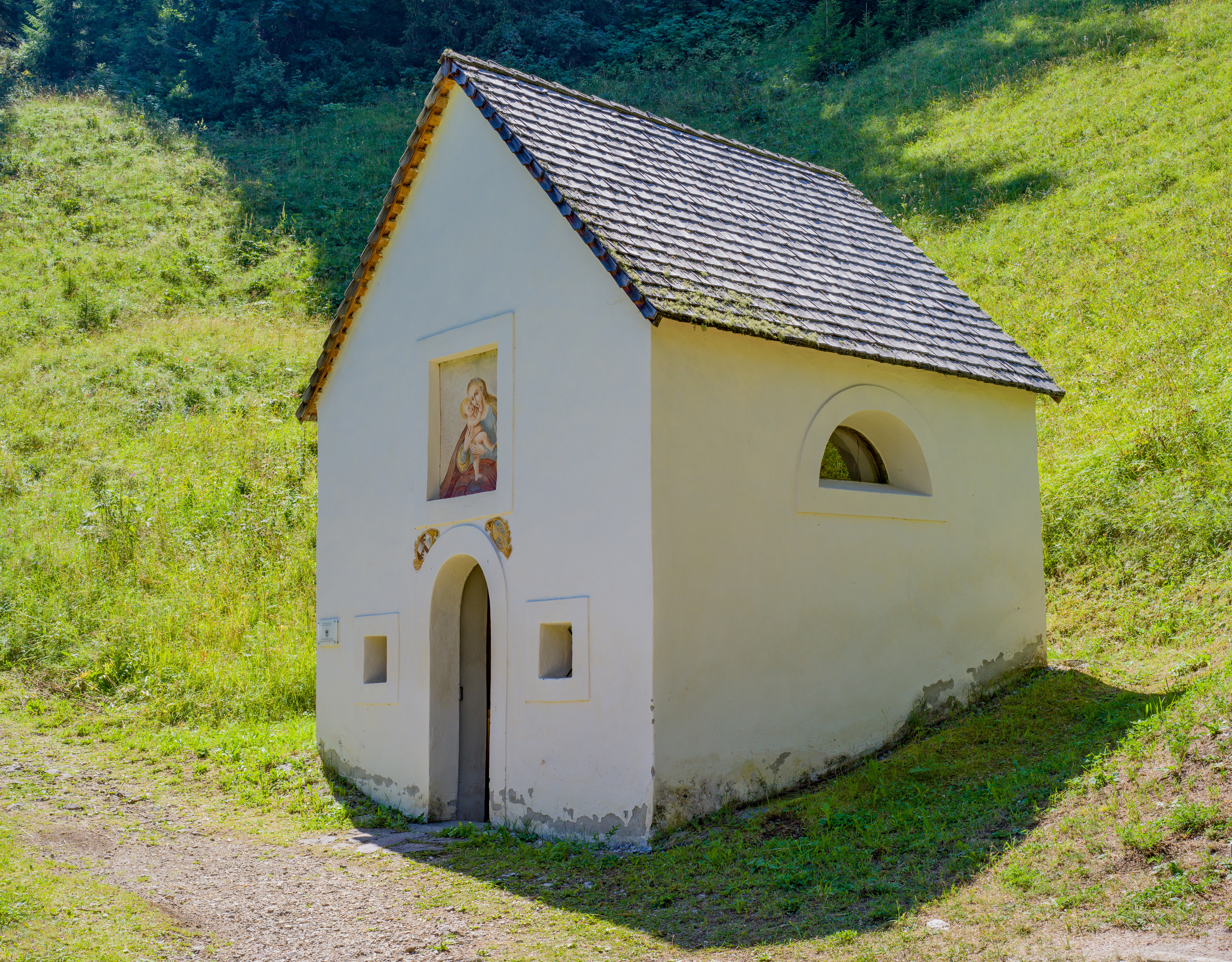 Saint Ottilia chapel near the castle Fischburg in Gröden